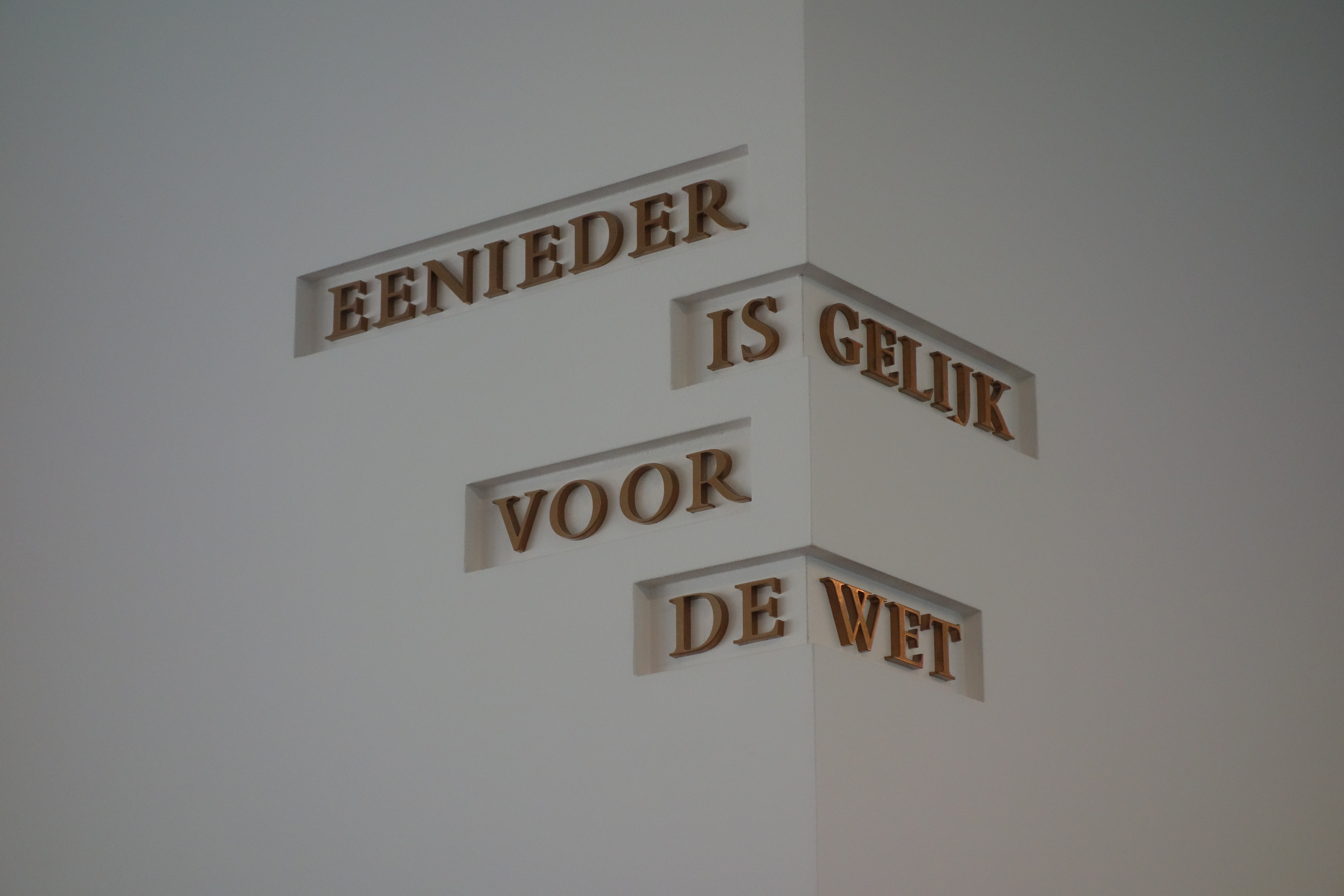 Eenieder is gelijk voor de wet. Nederlandse grondwet, Artikel II-20. Citaat op muur in gebouw Raad van State, Den Haag, mei 2017